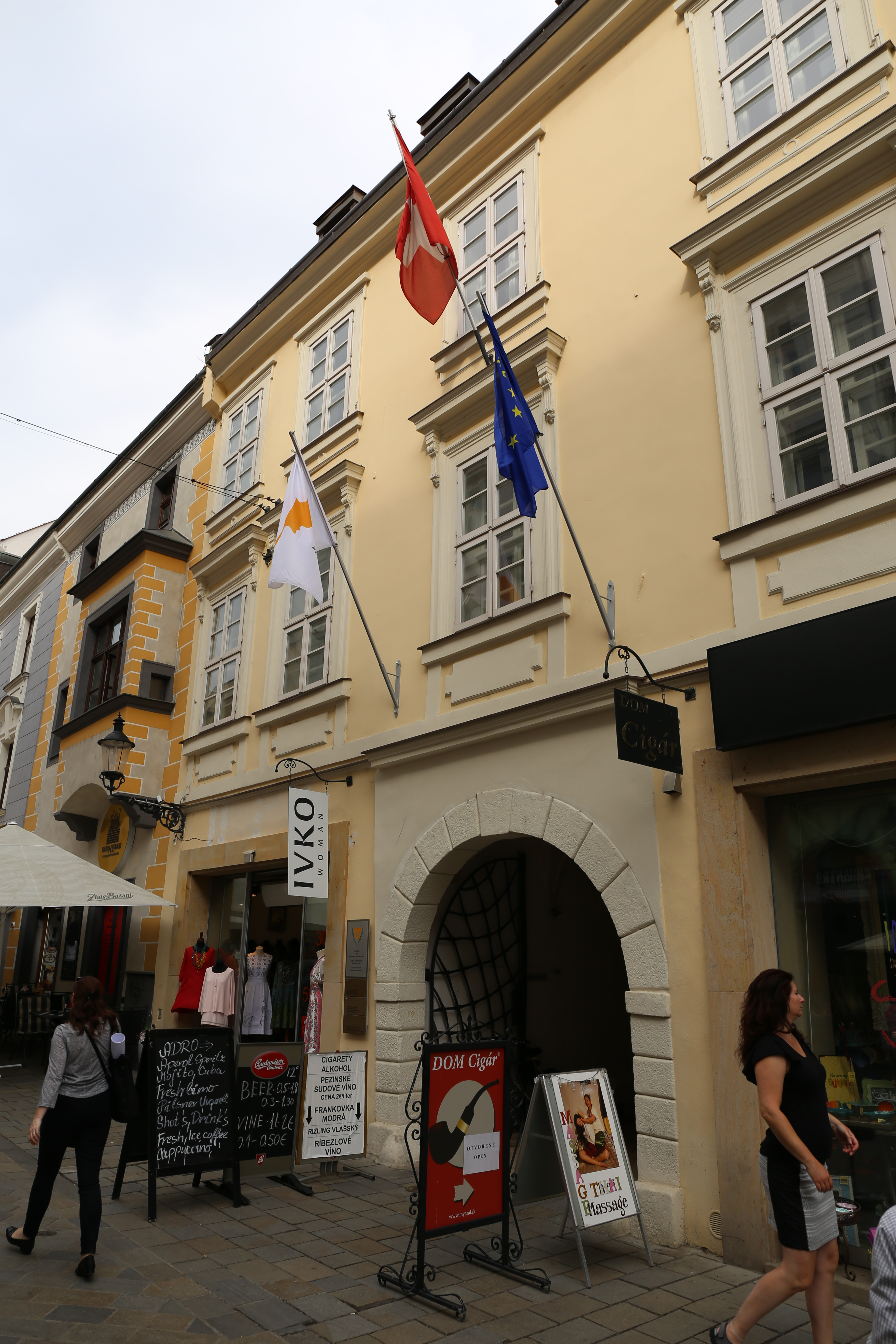 Switzerland and Cyprus embassies in Bratislava.